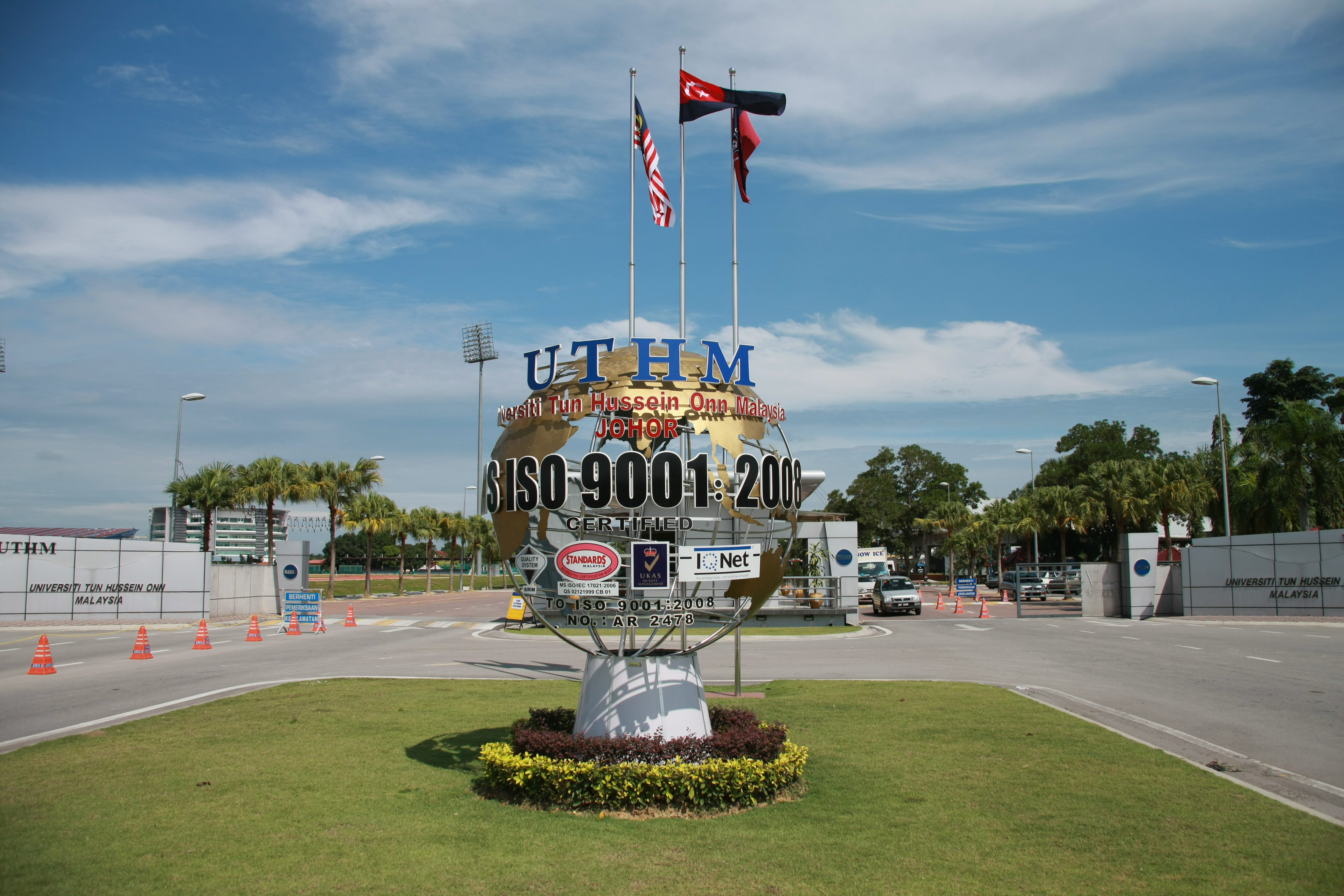 The iconic entrance of UTHM